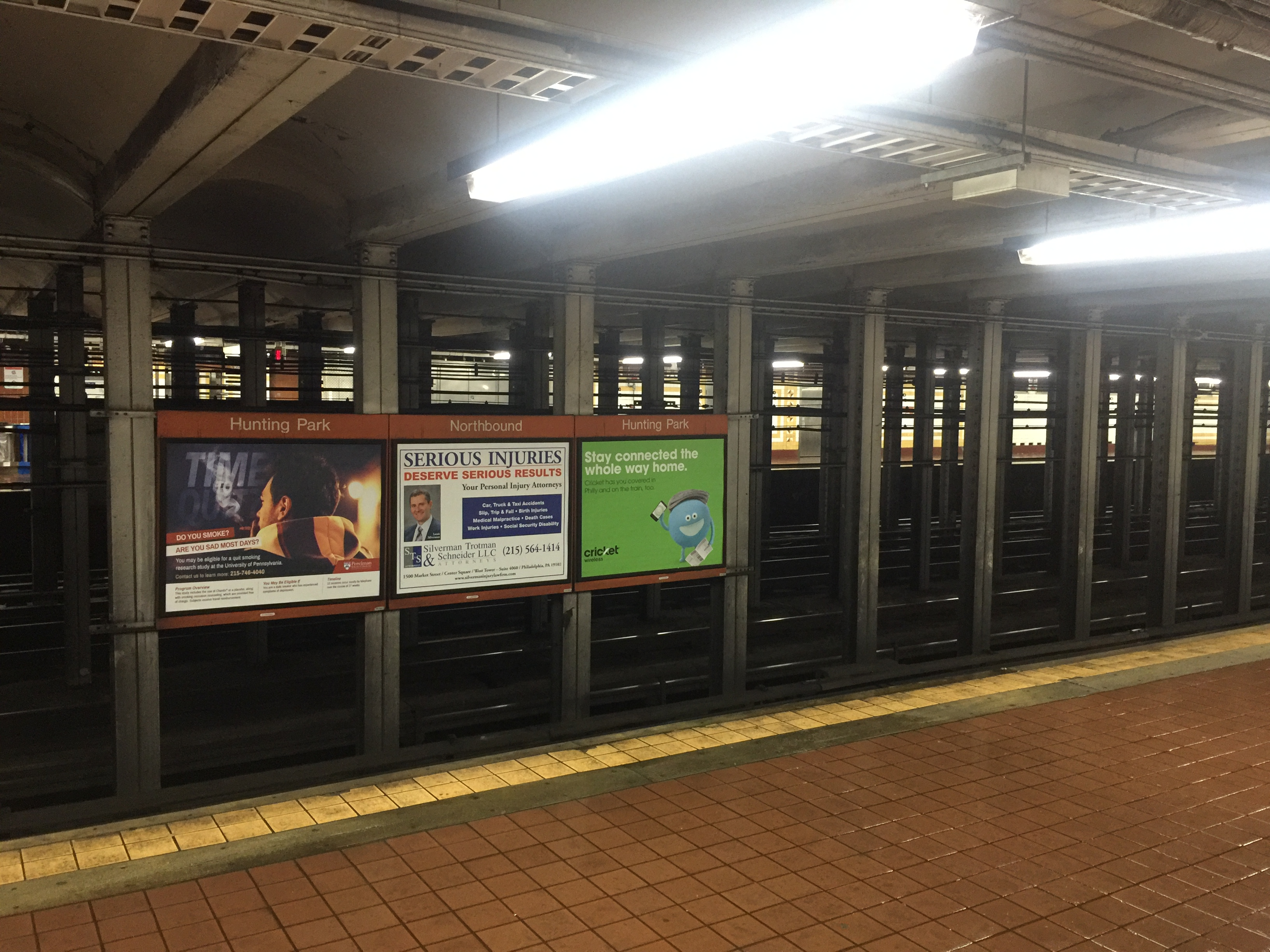 Hunting Park